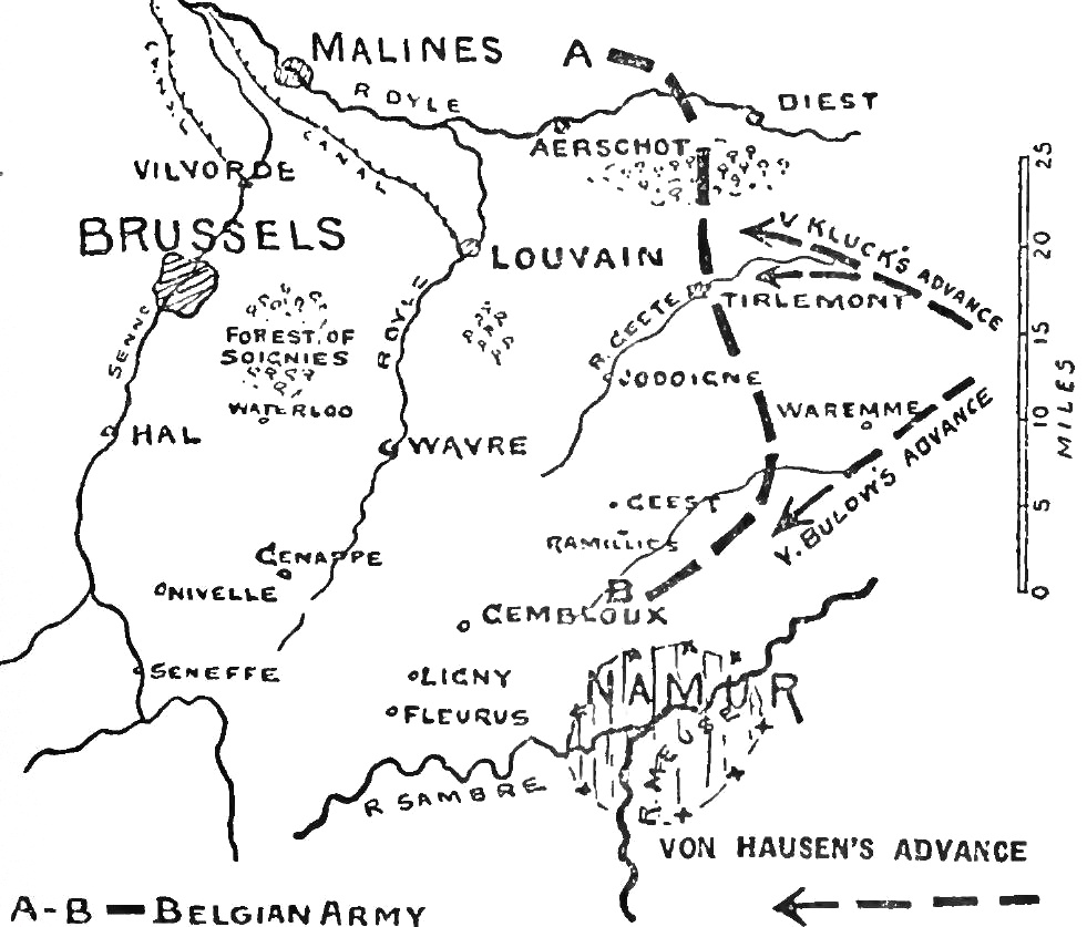 Situation in Belgium after the fall of Liege